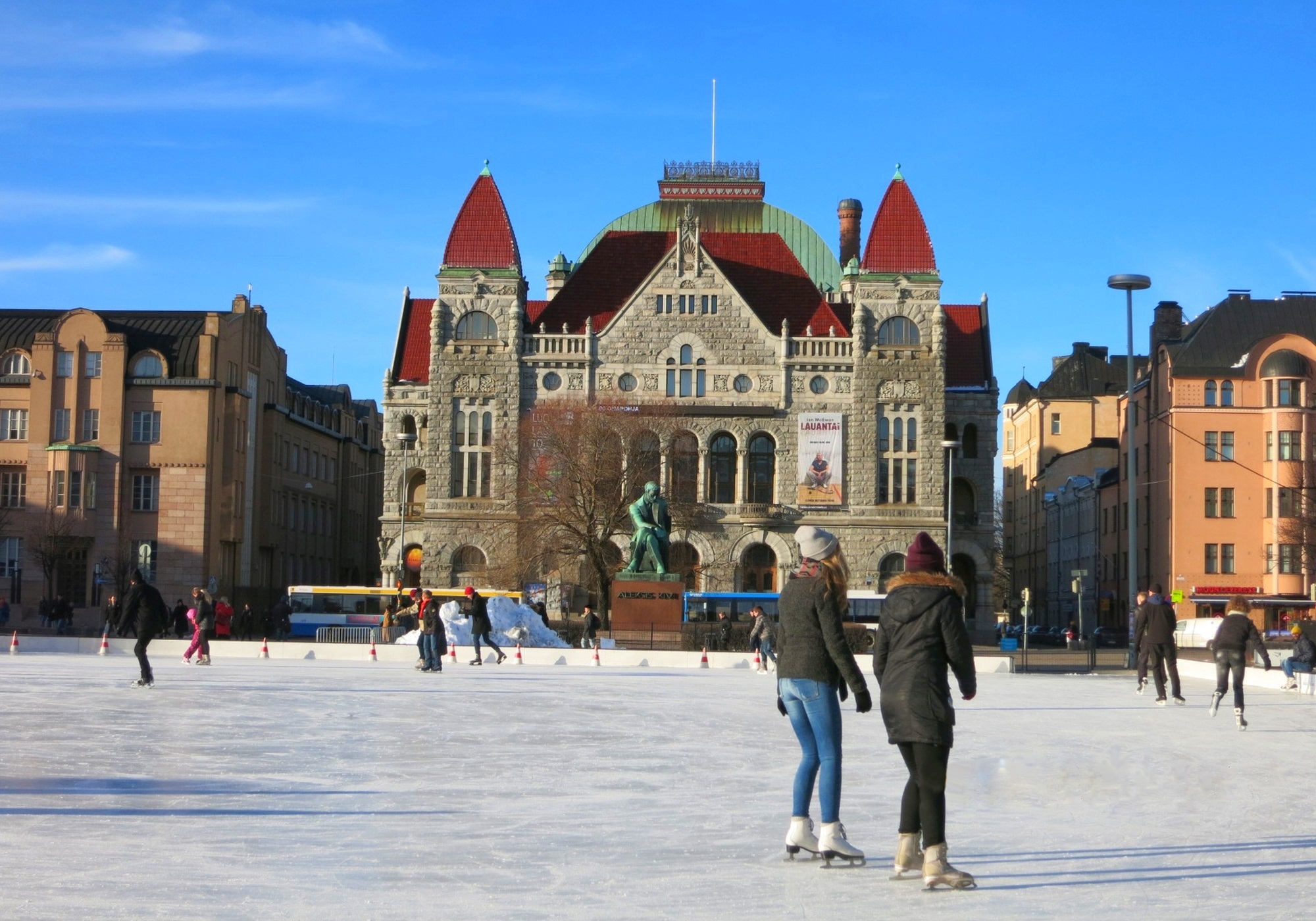 Foreground: ice skating rink of Helsinki Rautatientori square; background: Finnish National Theatre (built in 1902, architect Onni Tarjanne)